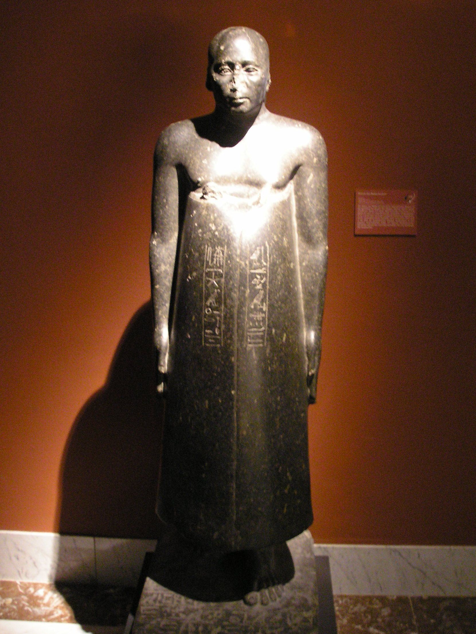 Statue of the "reporter of Thebes", Sobekemsaf, 13th Dynasty of ancient Egypt in the Kunsthistorisches Museum